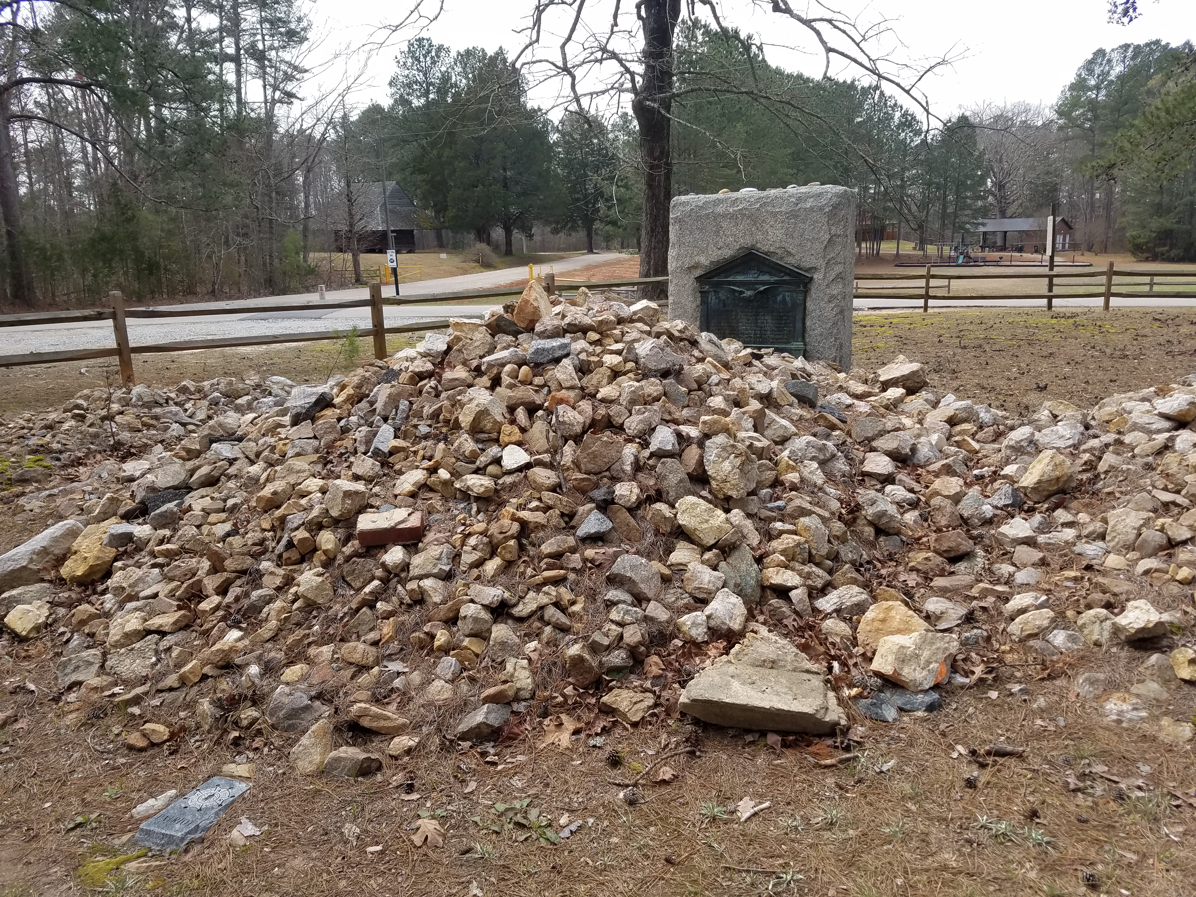 The gravesite of Sen. Nathaniel Macon at Buck Spring Plantation near Vaughan, Warren County, North Carolina.